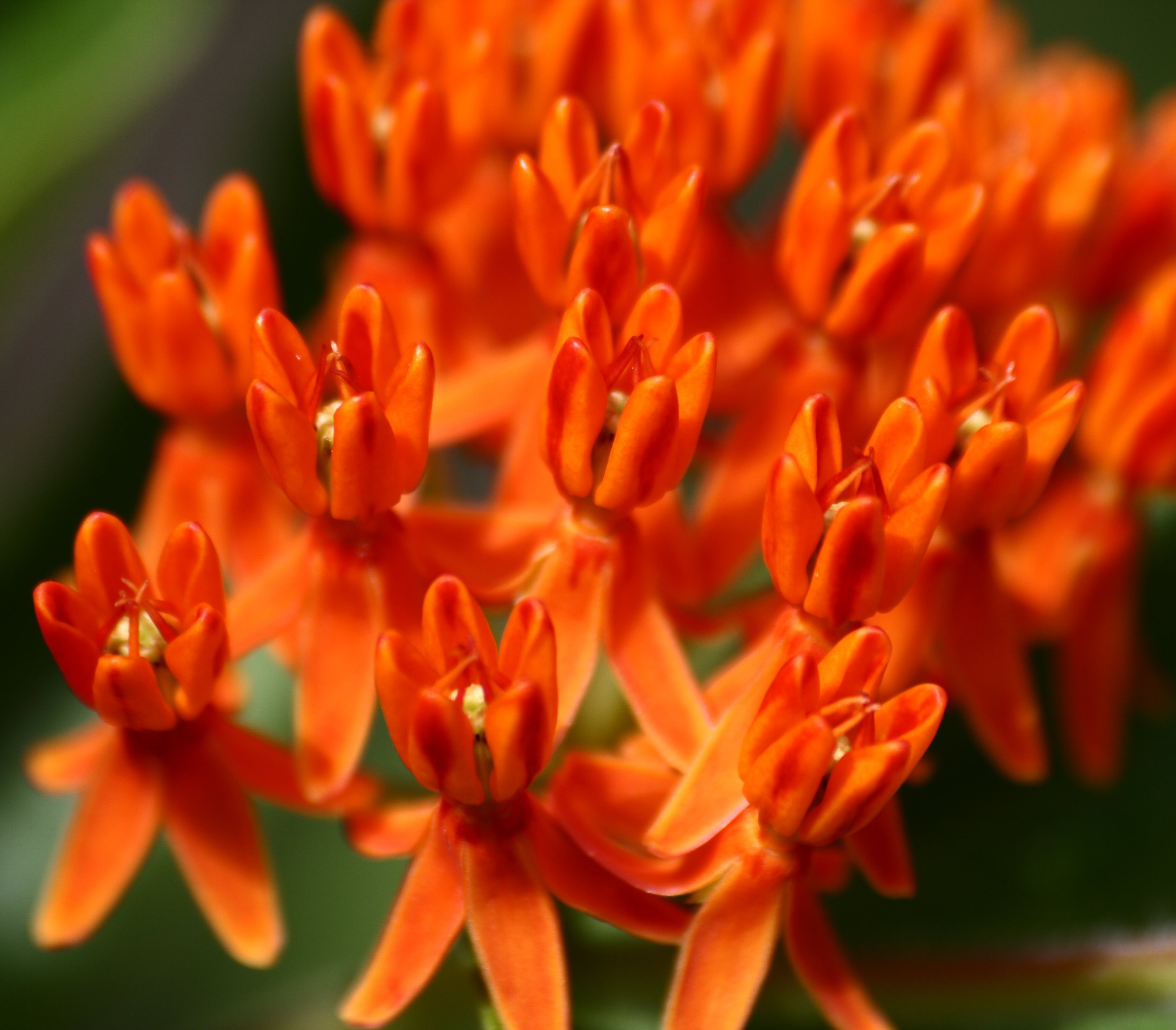 Asclepias tuberosa (Butterfly Weed) in Farmington, Connecticut